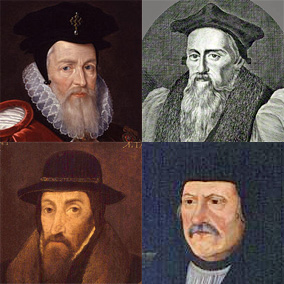 Four Tudor worthies mentioned in Brett Usher